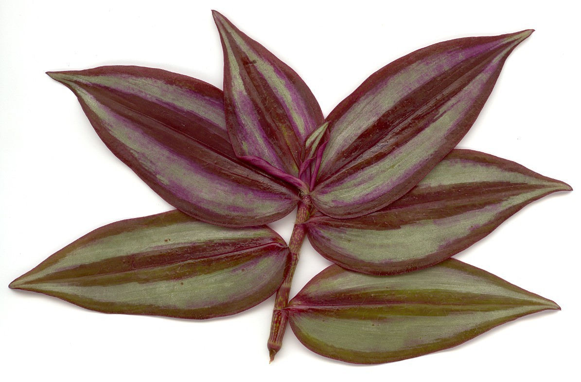 Front view of leaves from the Tradescantia zebrina plant.